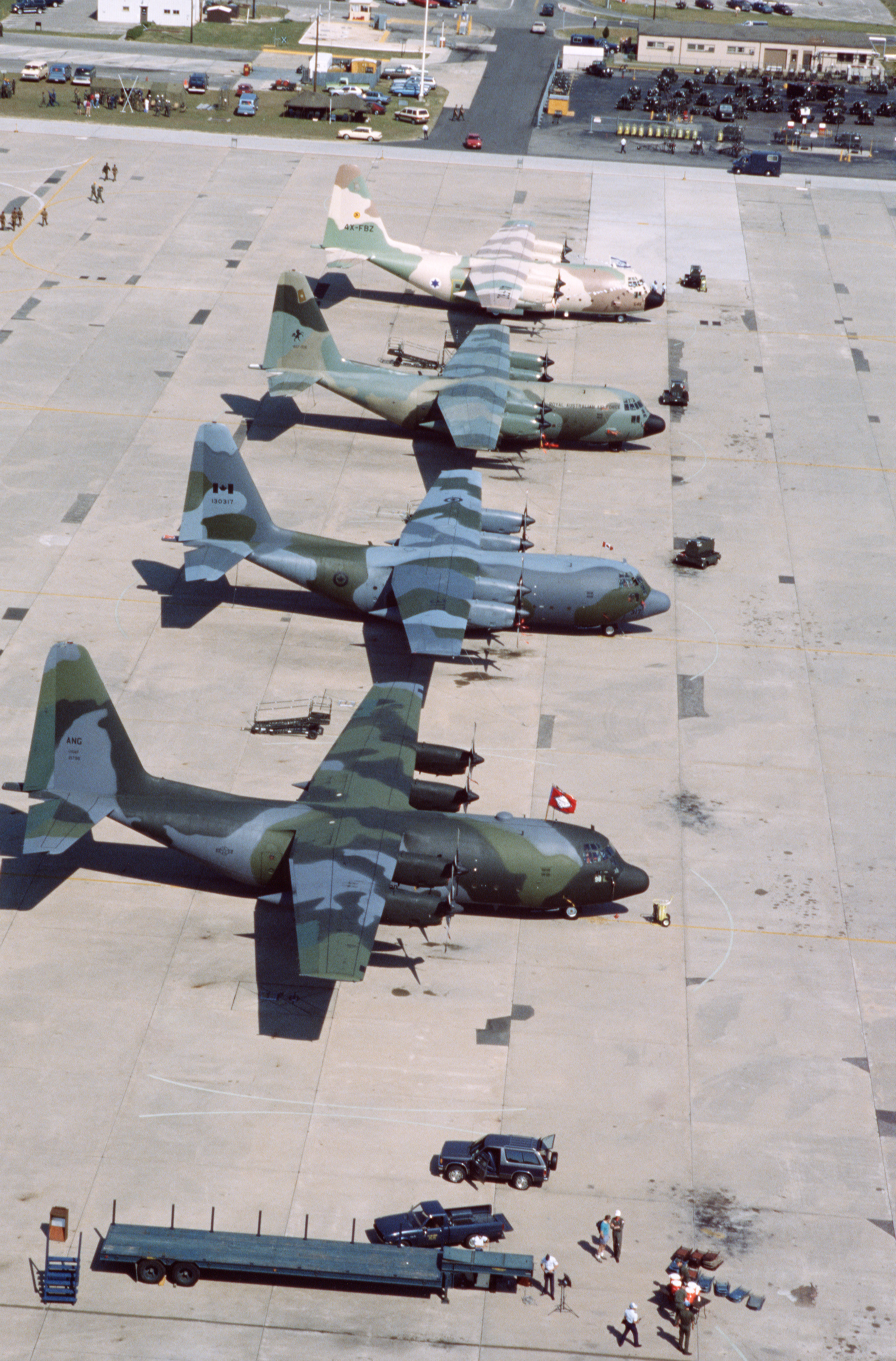 Four Lockheed C-130 Hercules aircraft parked on the flight line of Pope Air Force Base, North Carolina (USA), during exercise "Airlift Rodeo '87" on 8 December 1987. The aircraft are from the following air forces (foreground to background): U.S. Air Force Air National Guard, Royal Canadian Air Force, Royal Australian Air Force and Israeli Air Force.